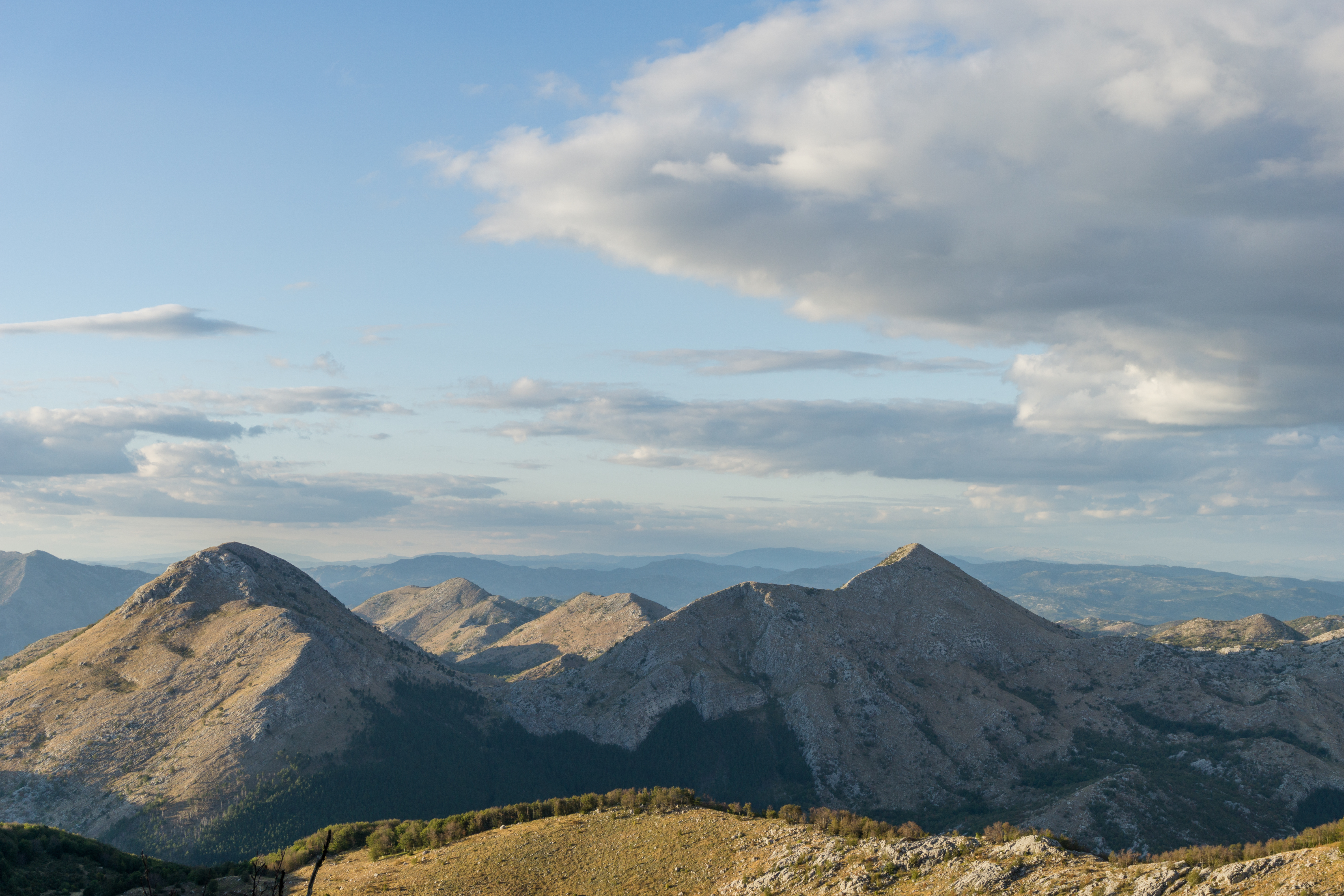 Lovćen national park. Picture taken during hiking the Primorska Planinarska Transverzala (PPT; Mountaineering Coastal Transversal) in Montenegro